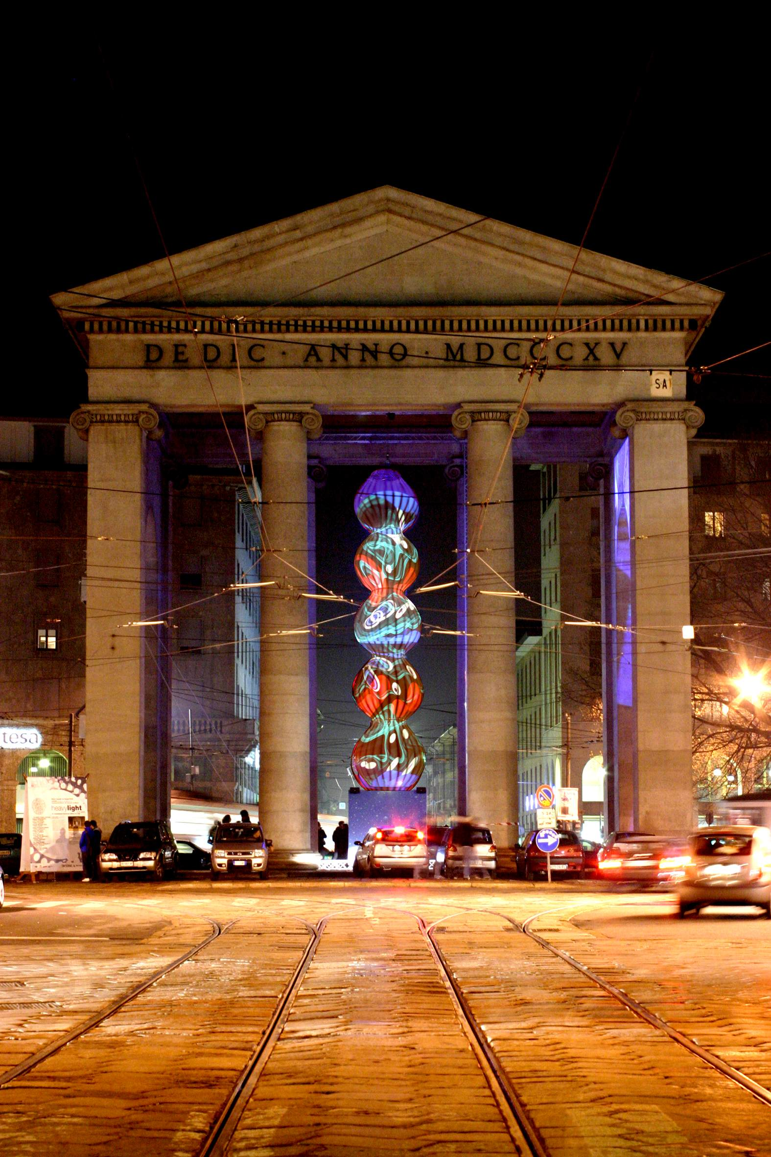 'Gate of Time', 15m, Milan